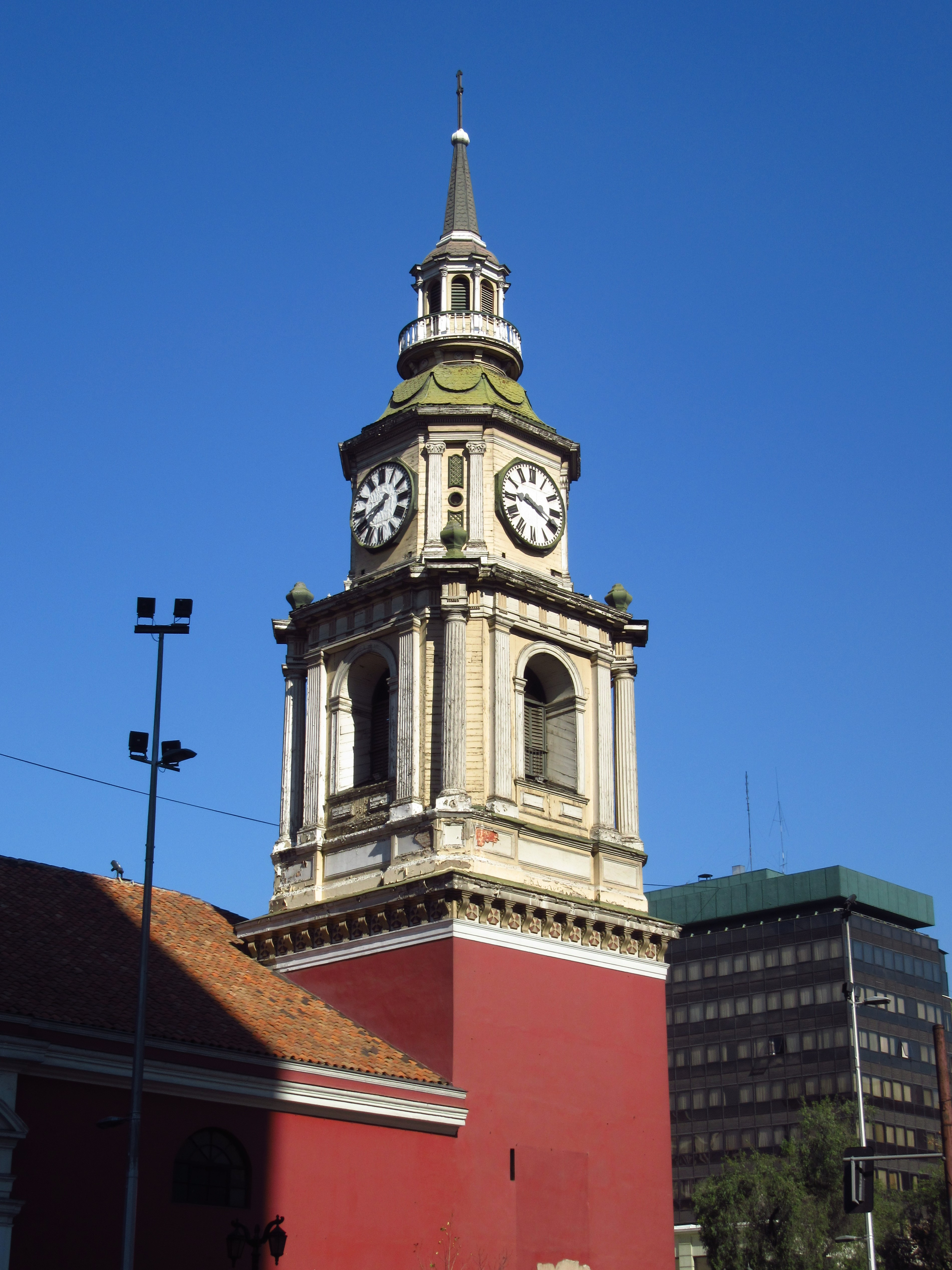 2017 in Santiago de Chile